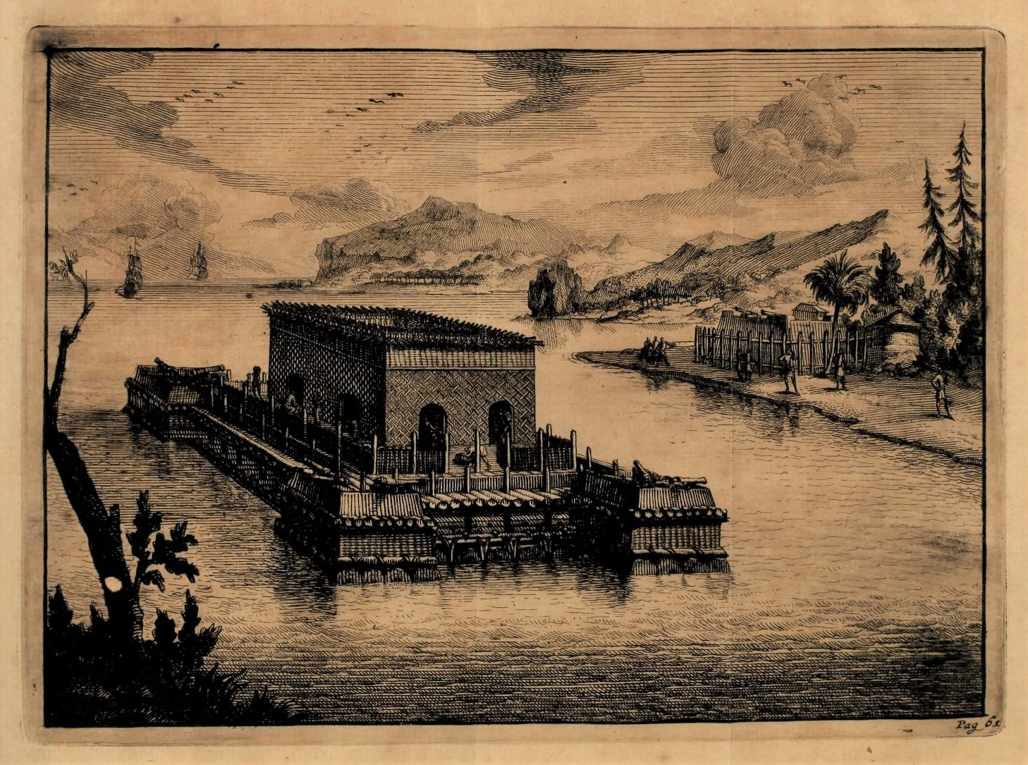 A drawing of a floating water castle (kotta mara) from Hachelijke reys-togt van Jacob Jansz de Roy, na Borneo en Atchin, in sijn vlugt van Batavia, derwaards ondernoomen in het jaar 1691. This building has 4 bastions, each with 4 cannons.